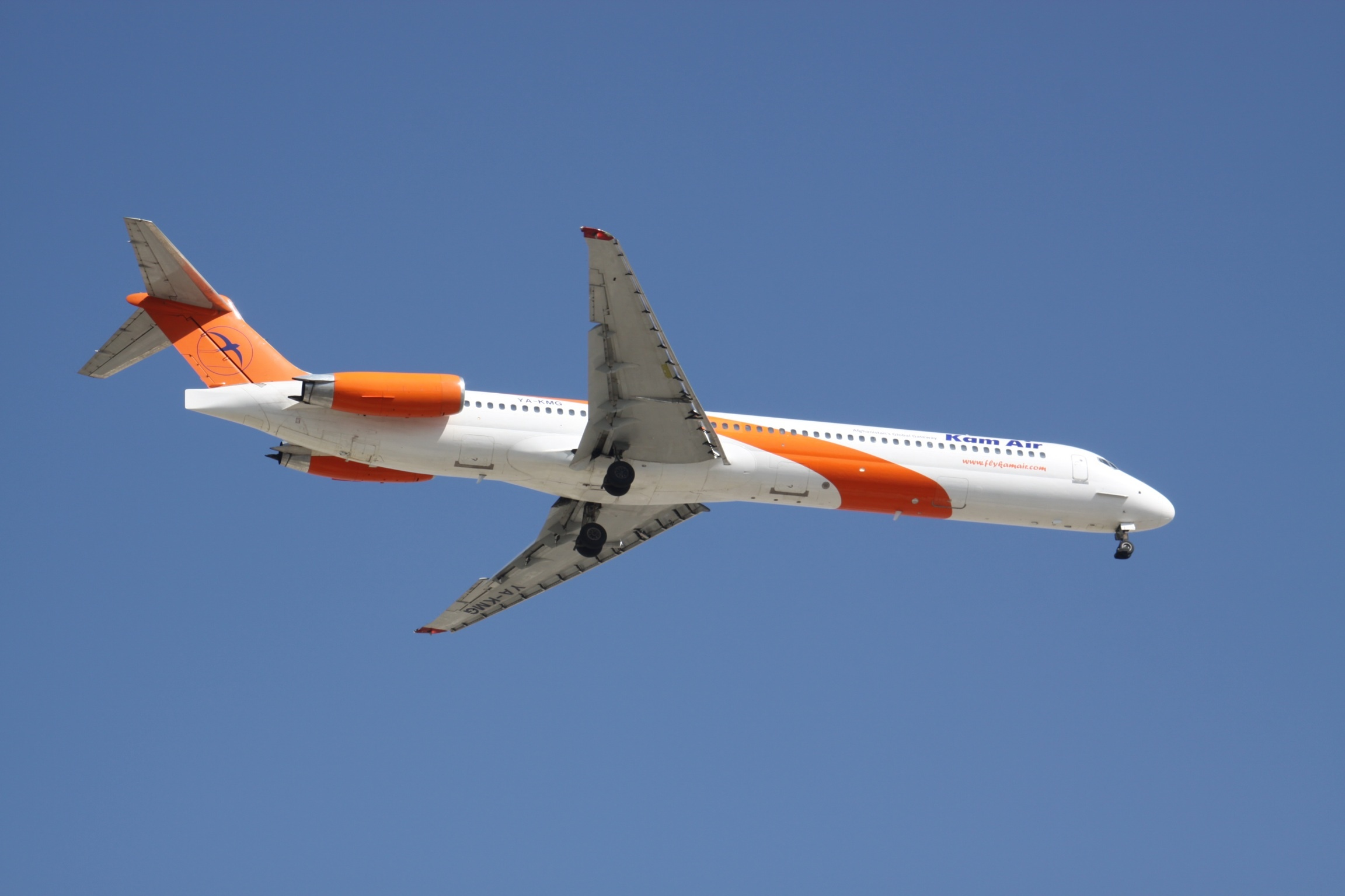 At Dubai International DXB